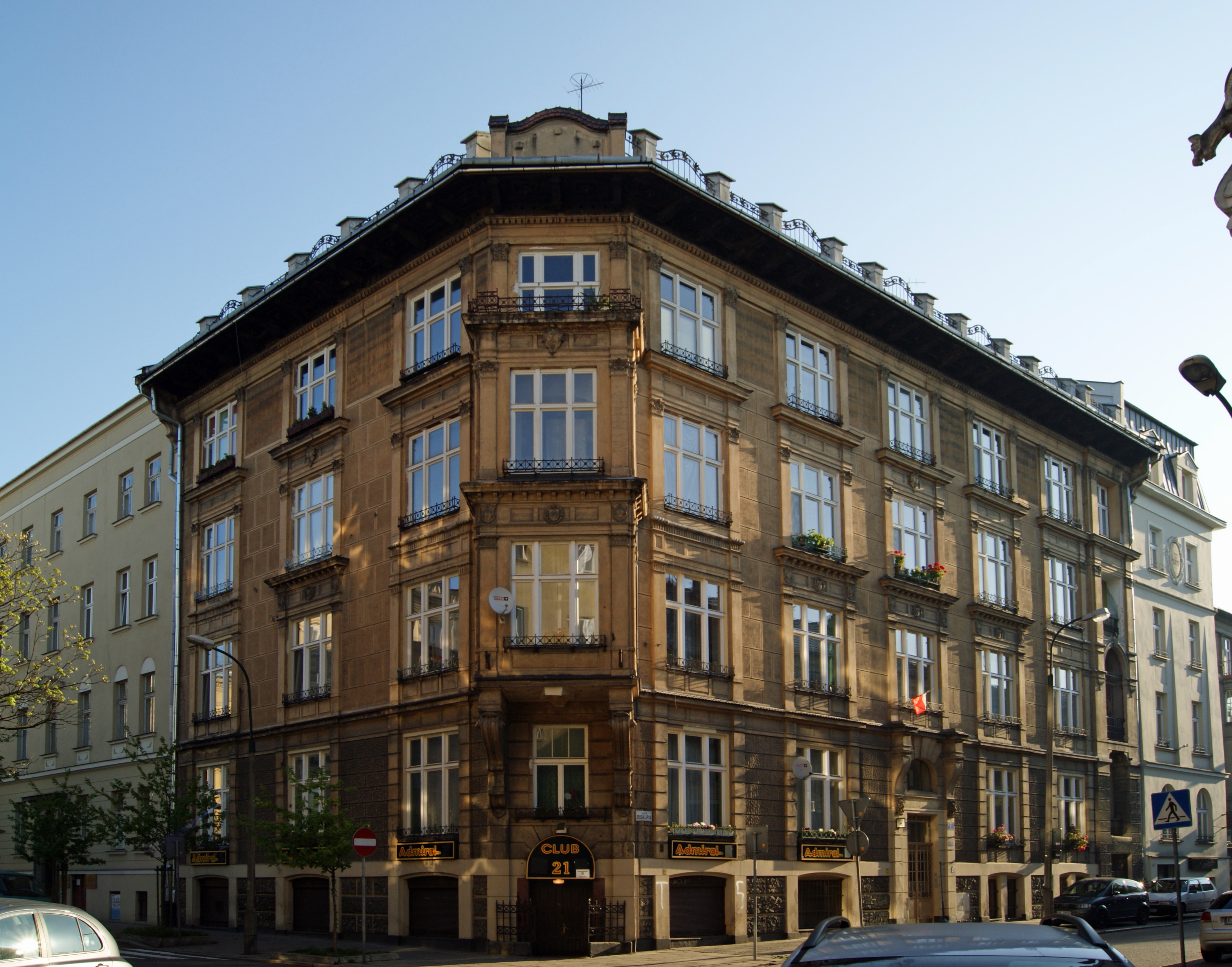 Zawiejski's House,1909- designed by arch. Jan Zawiejski, 2 Biskupia street, Krakow, Poland